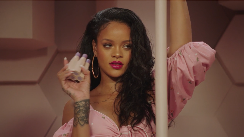 Rihanna for a Fenty Beaty campain in 2018